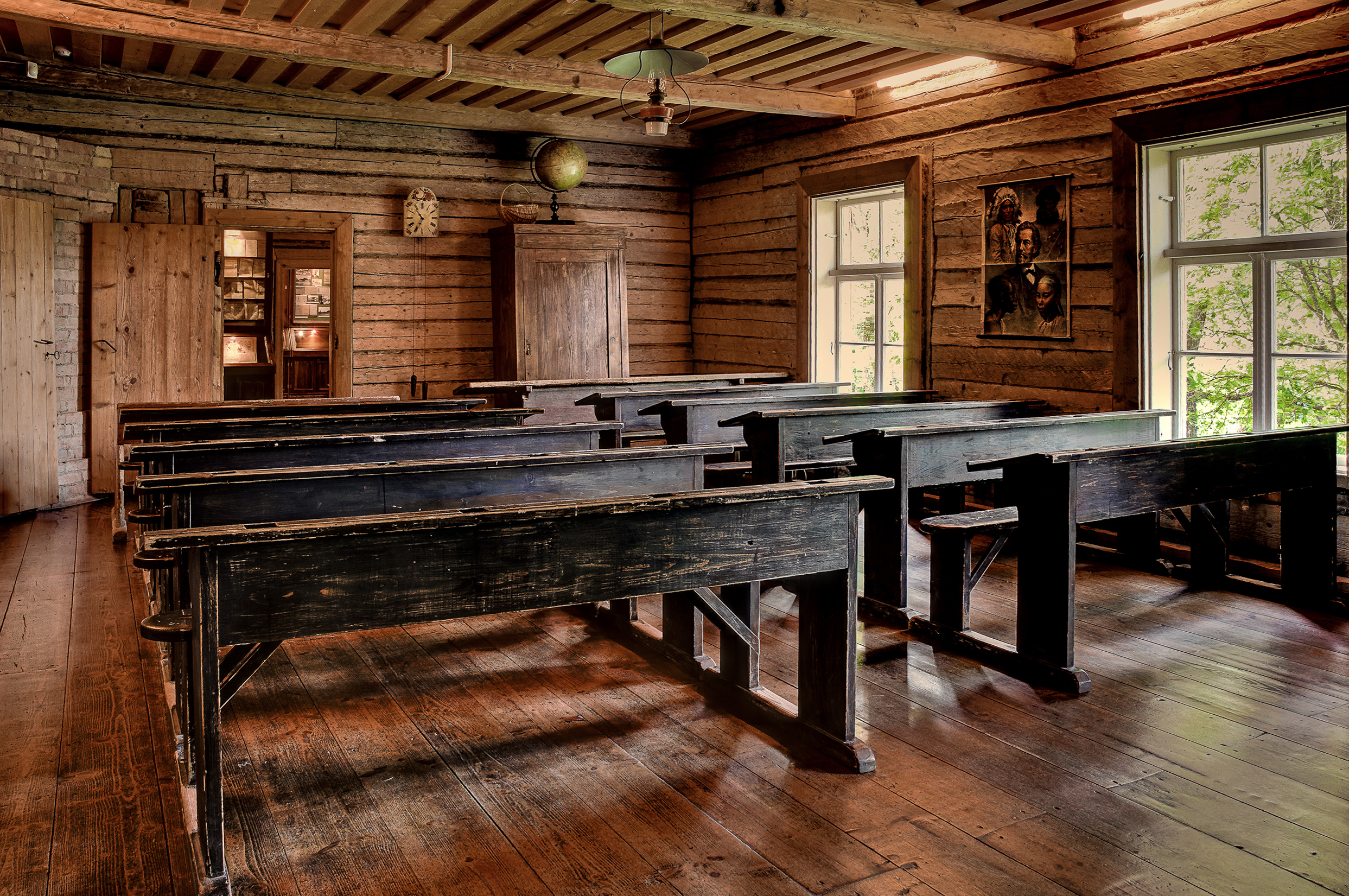 Palamuse Parish School's classroom. This 19th century classroom is now a part of a museum that bears the name of writer Oskar Luts, who studied there and wrote the book Kevade about his schooldays. It remains his best know work and the film adaption of the novel (that was also shot in Palamuse) is regarded as the best Estonian film in the 20th century.